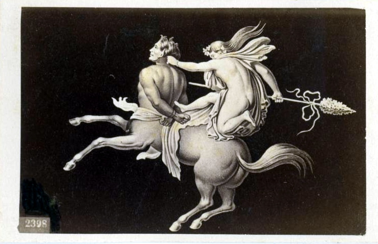 Giorgio Sommer (1834-1914) & Edmond Behles (1841-1924), A maenad riding a centaur. Photograph of a drawing taken from a fresco from Pompeii. Catalogue # 2398.